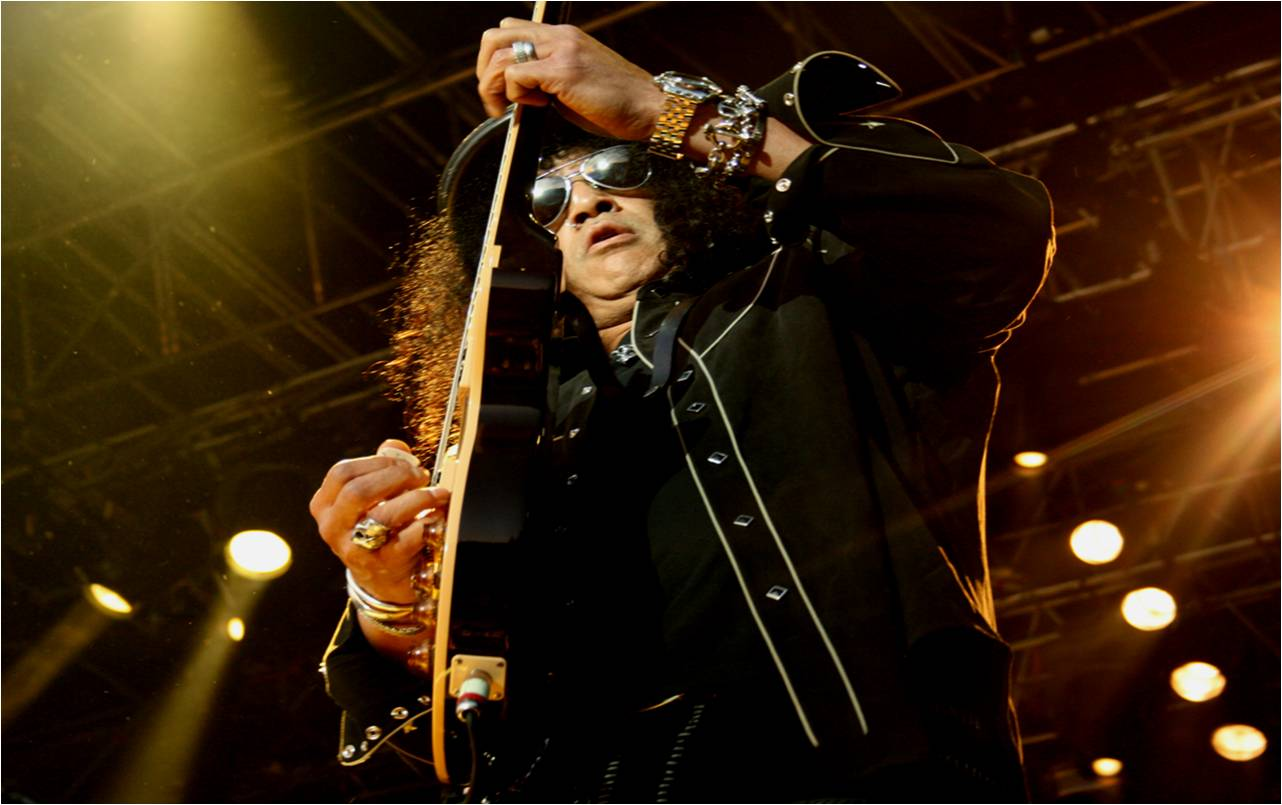 Slash at the Norwegian Quart Festival 2009